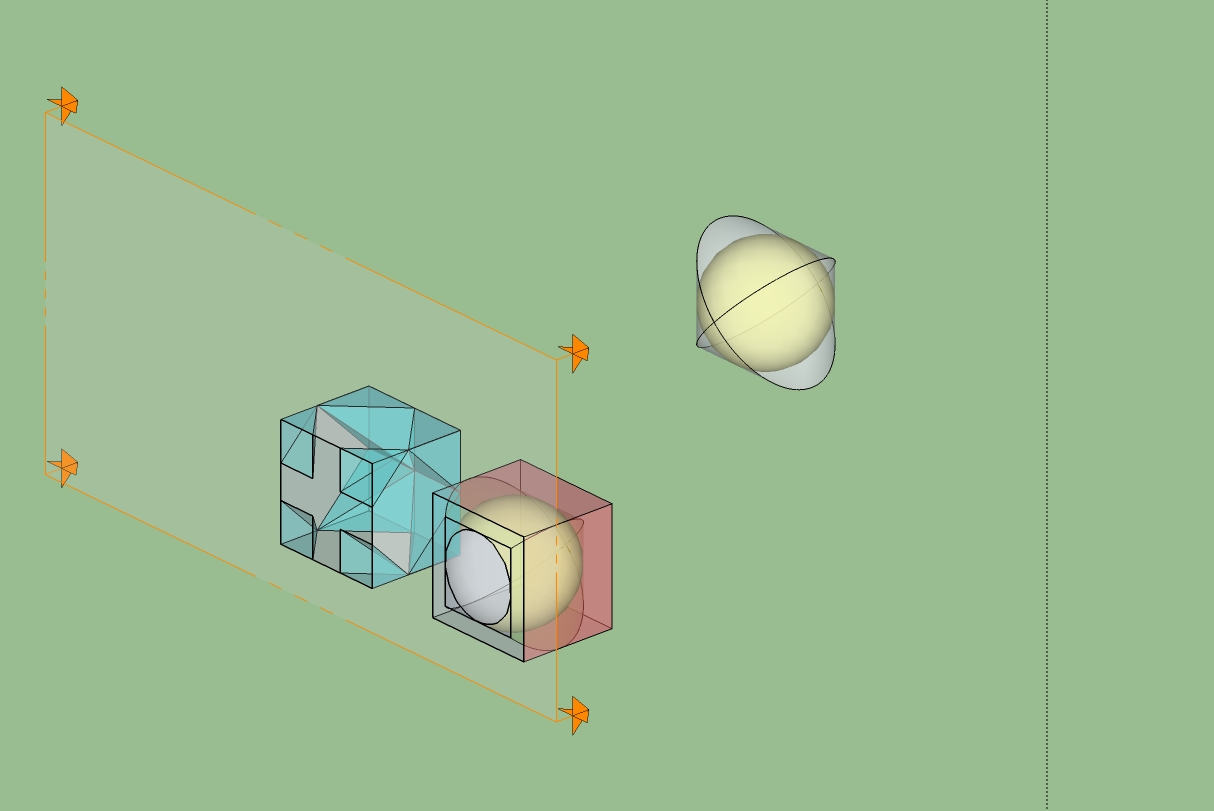 Deriving the volume of a sphere using Zu Chongzhi's method (similar to Cavalieri's principle) with a bicylinder. Pack the sphere (yellow) in a bicylinder (white). Pack the bicylinder in a cube (red). Using a plane parallel to the bicylinder axes, calculate the ratio of the circle intersecting the sphere with the square intersecting the bicylinder: π r 2 ( 2 r ) 2 = π 4 {\displaystyle \textstyle {\frac {\pi r^{2 {(2r)^{2 }={\frac {\pi }{4 } . Next, calculate the bicylinder volume by noting that the difference between the square of intersection for the cube and for the bicylinder is equivalent to squares in each corner. These squares form 8 isosceles pyramids (blue) as the plane is moved across the solids. The volume of the cube (red) minus the volume of the eight pyramids (blue) is the volume of the bicylinder (white). The volume of the 8 pyramids is: 8 × 1 3 r 2 × r = 8 3 r 3 {\displaystyle \textstyle 8\times {\frac {1}{3 r^{2}\times r={\frac {8}{3 r^{3 , and then we can calculate that the bicylinder volume is ( 2 r ) 3 − 8 3 r 3 = 16 3 r 3 {\displaystyle \textstyle (2r)^{3}-{\frac {8}{3 r^{3}={\frac {16}{3 r^{3 . Finally, use the ratio of the bicylinder volume to the sphere volume to calculate the volume of the sphere: π 4 × 16 3 r 3 = 4 π 3 r 3 {\displaystyle {\frac {\pi }{4 \times {\frac {16}{3 r^{3}={\frac {4\pi }{3 r^{3 .